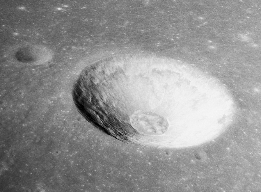 Oblique view of Taruntius H crater, on the moon.The source image was incorrectly labeled as Messier B (which is nearly the same size and shape as this crater and is nearby), but comparison with a correctly labeled image (AS10-34-5136) indicates it is in fact Taruntius H.